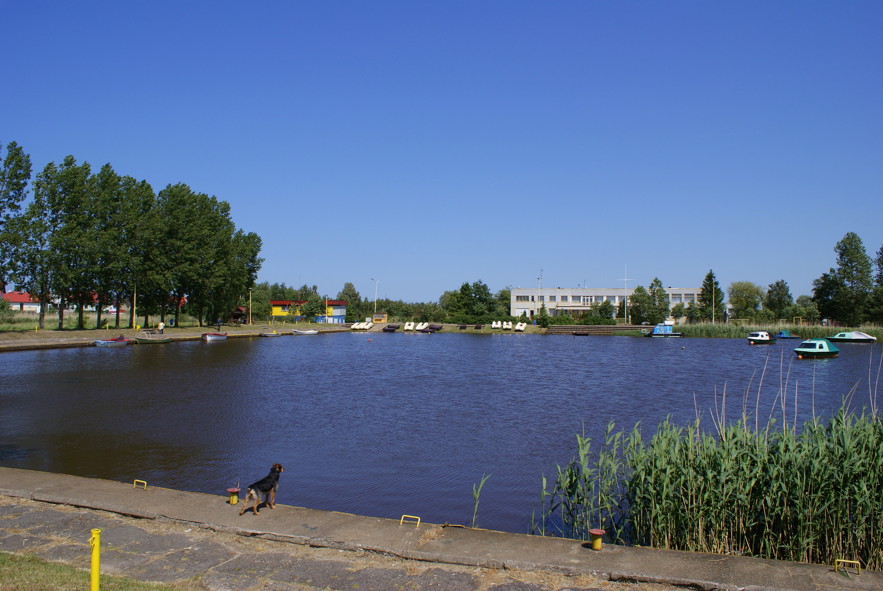 Lake harbour in Dźwirzyno by the Resko Przymorskie, Poland